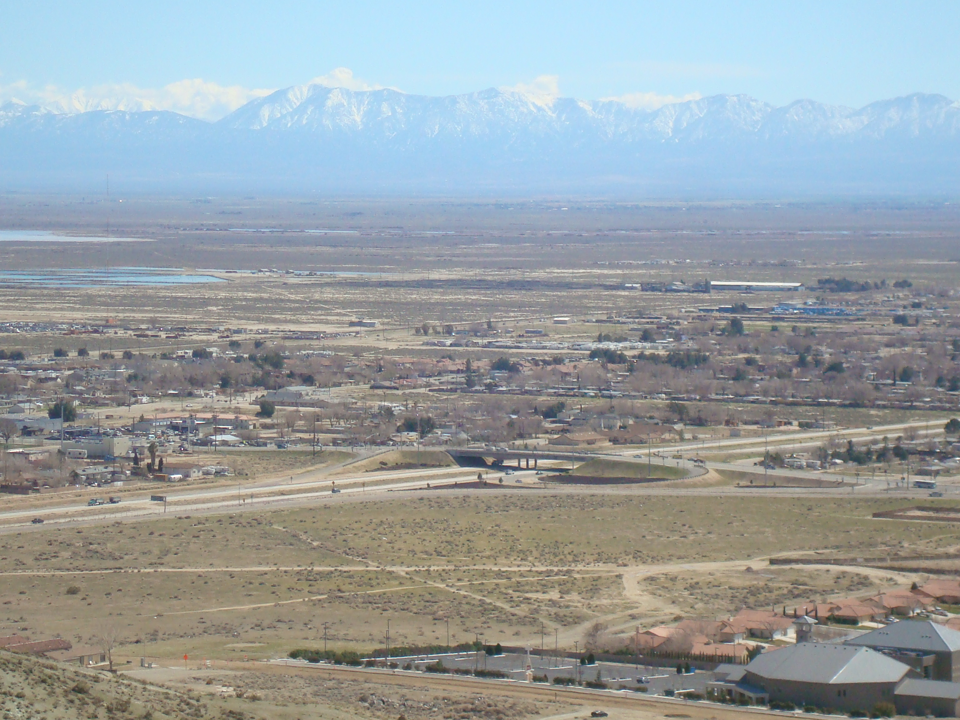 View of part of Rosamond from adjacent hill — in eastern Kern County, California. Located in the Antelope Valley of the western Mojave Desert. The San Gabriel Mountains are in backround.